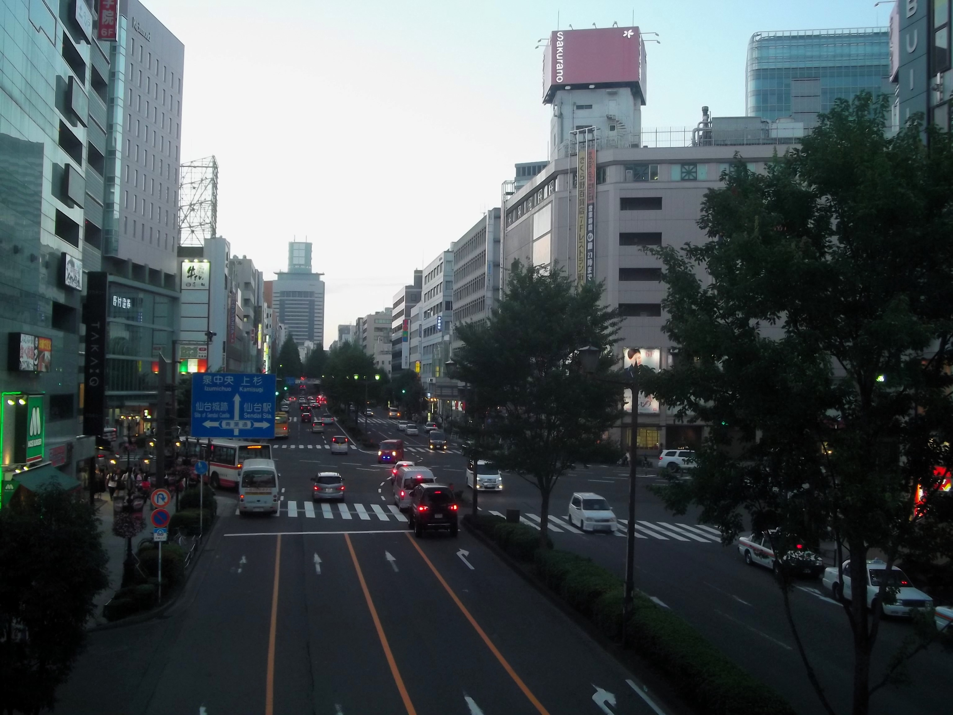 Atago-Kamisugi street at Chuo, Aoba-ku, Sendai, Miyagi, Japan. This place is near Sendai Station.